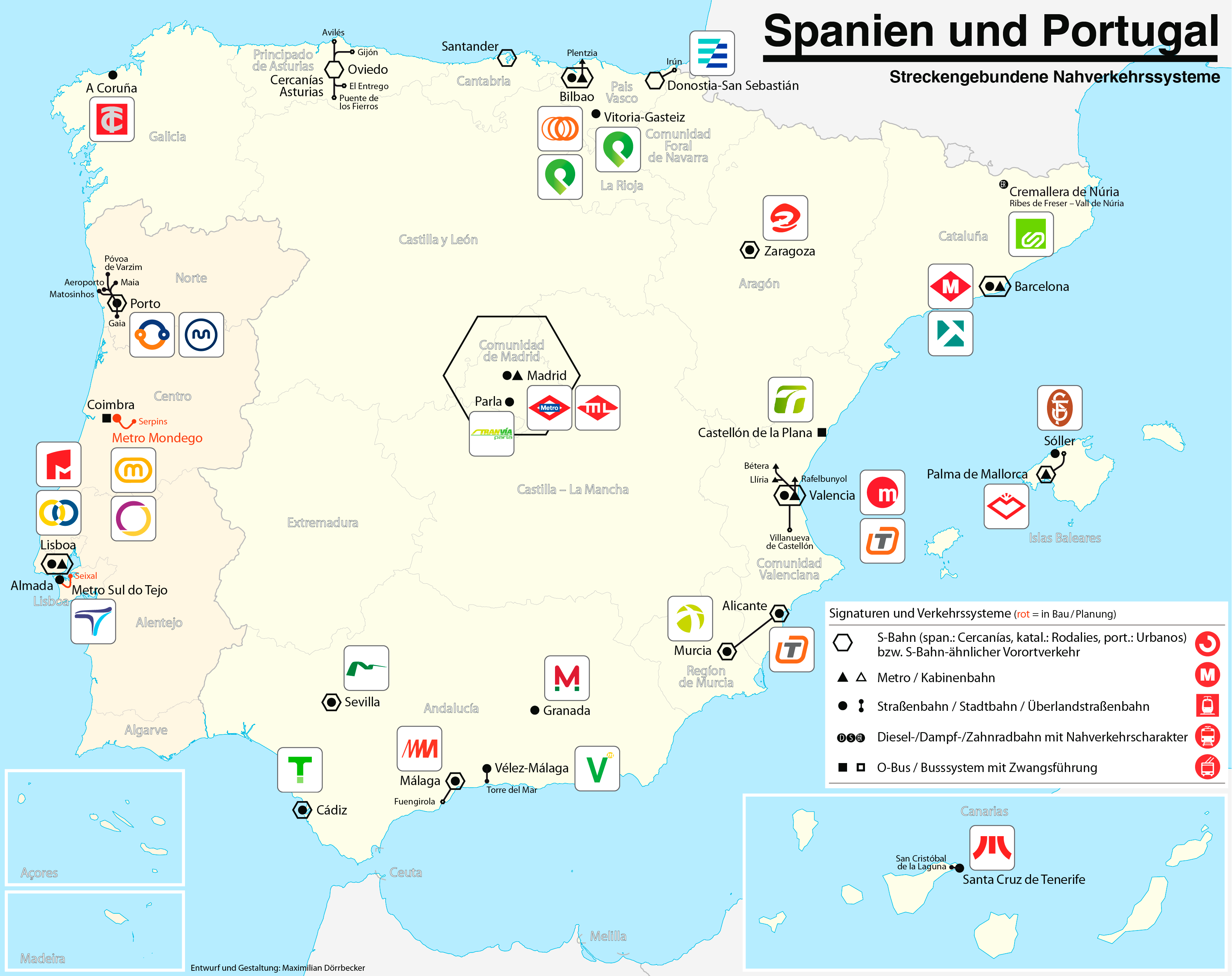 Map of fixed-route public transport systems (suburban railways, Rapid Transit and Light Rail Transit systems, tram, trolleybus) in Spain and Portugal